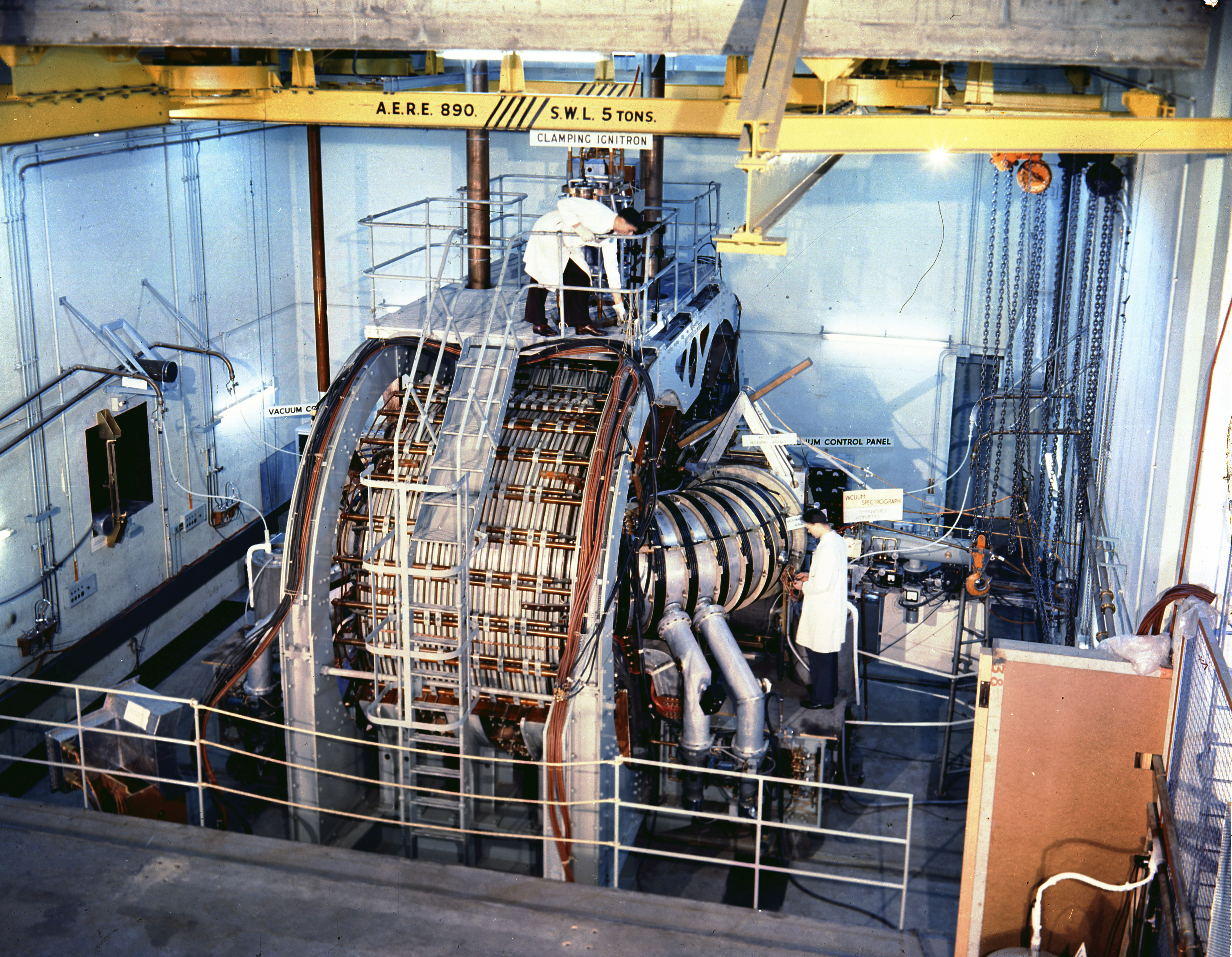 ZETA fusion reactor as seen from above in late 1957.